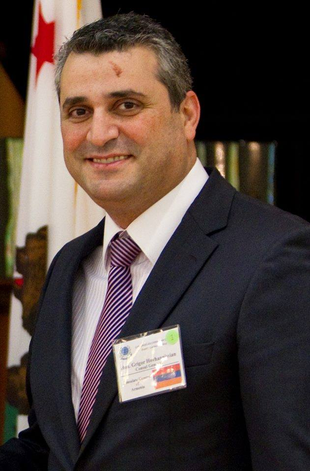 Grigor Harutyunyan